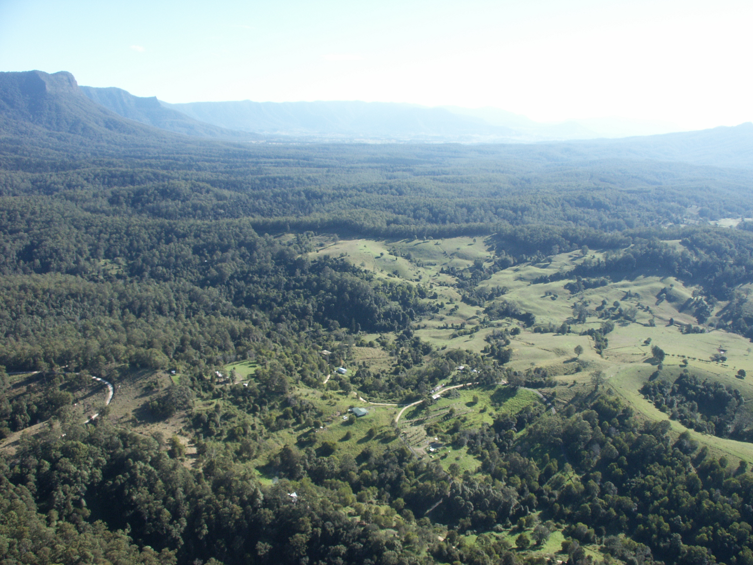 Upper Tweed Valley, New South Wales, Australia. Taken from a light aircraft at about 500 feet.